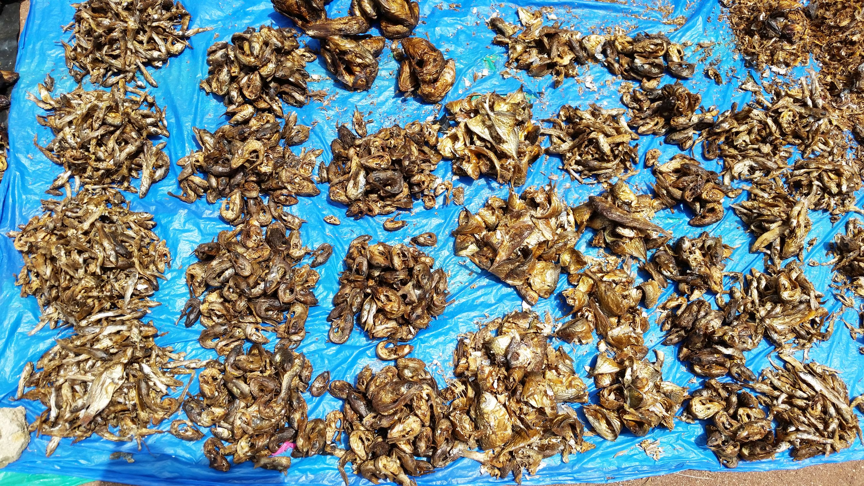 Fishes in the market in Soko in Côte d'Ivoire This is an image of food from Ivory Coast